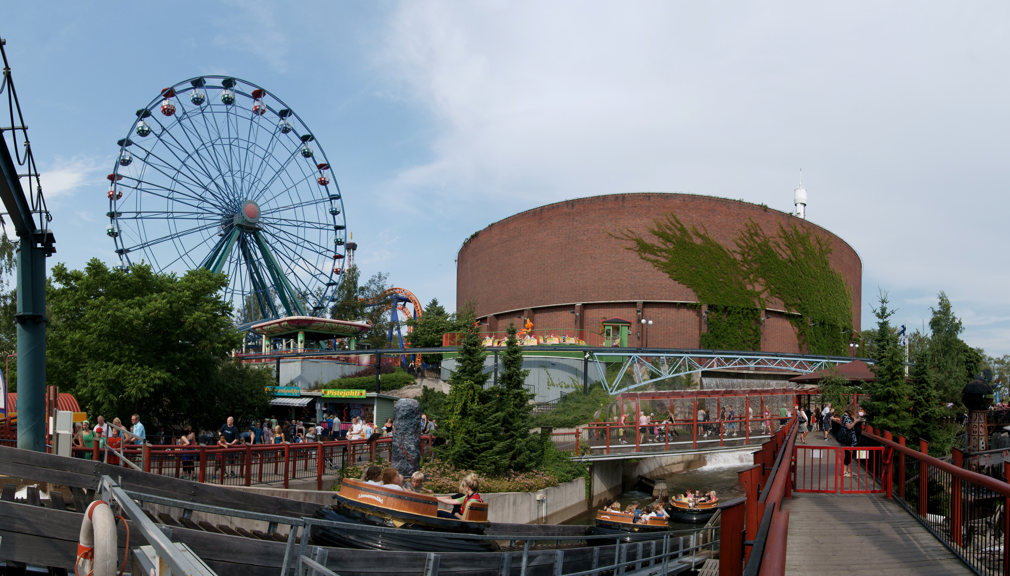 Panorama from Linnanmäki.